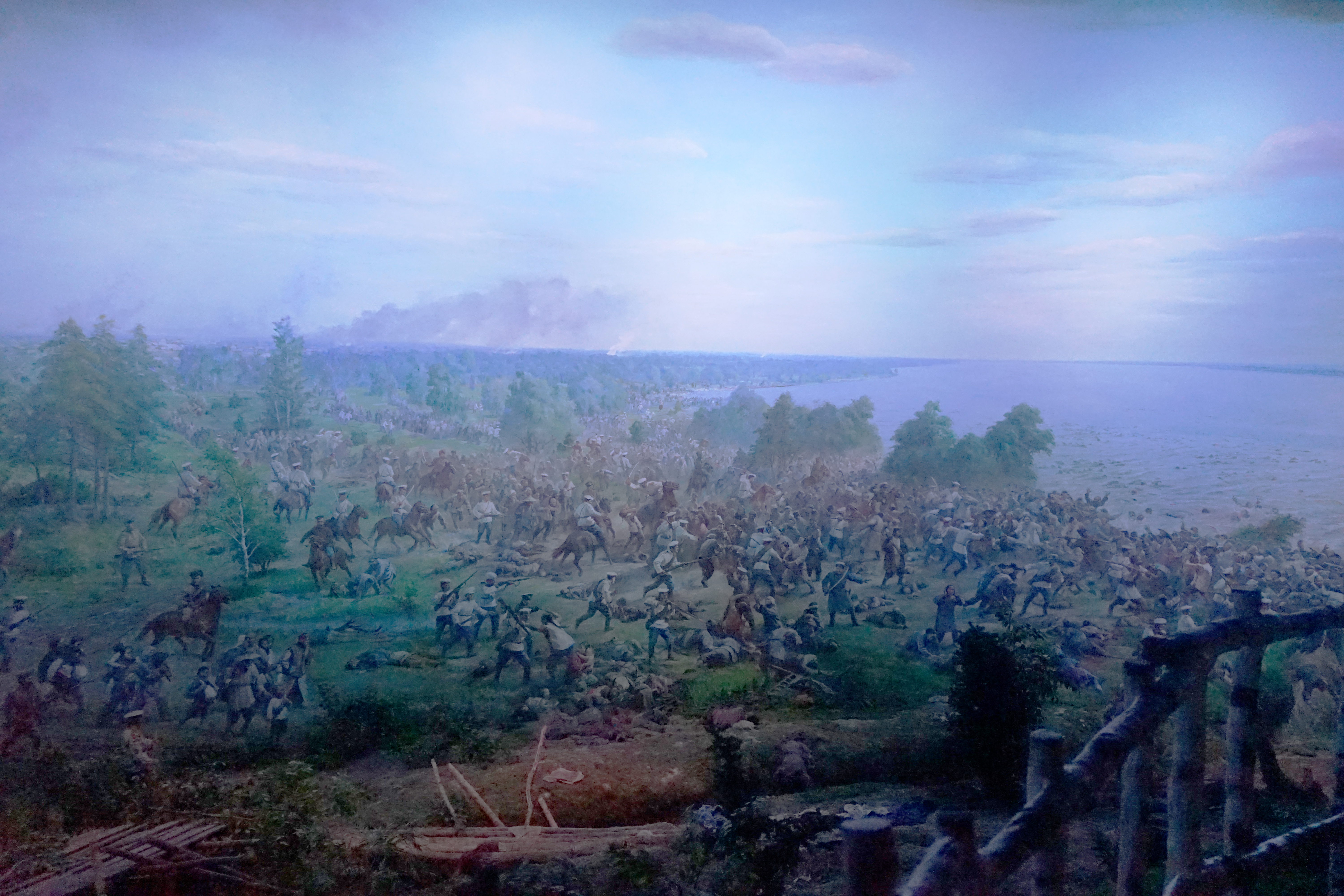 Blagoveshchensk Tragedy Semi-panorama (海兰泡惨案半景画). 19.1m high and 68.6m long.